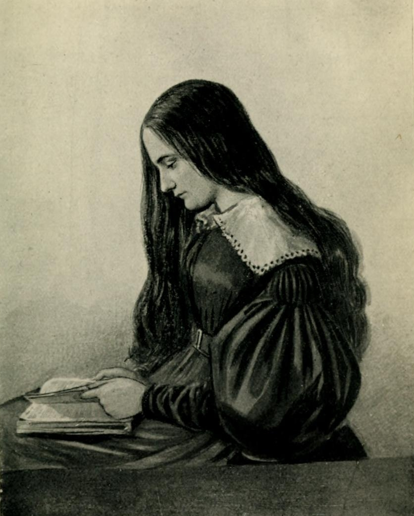 sketch of Lucy Austin aged fifteen (c. 1836)